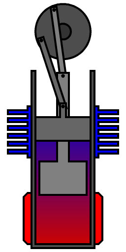 By Richard Wheeler (Zephyris)) 2007. Single frame of Image:Stirling Animation.gif.